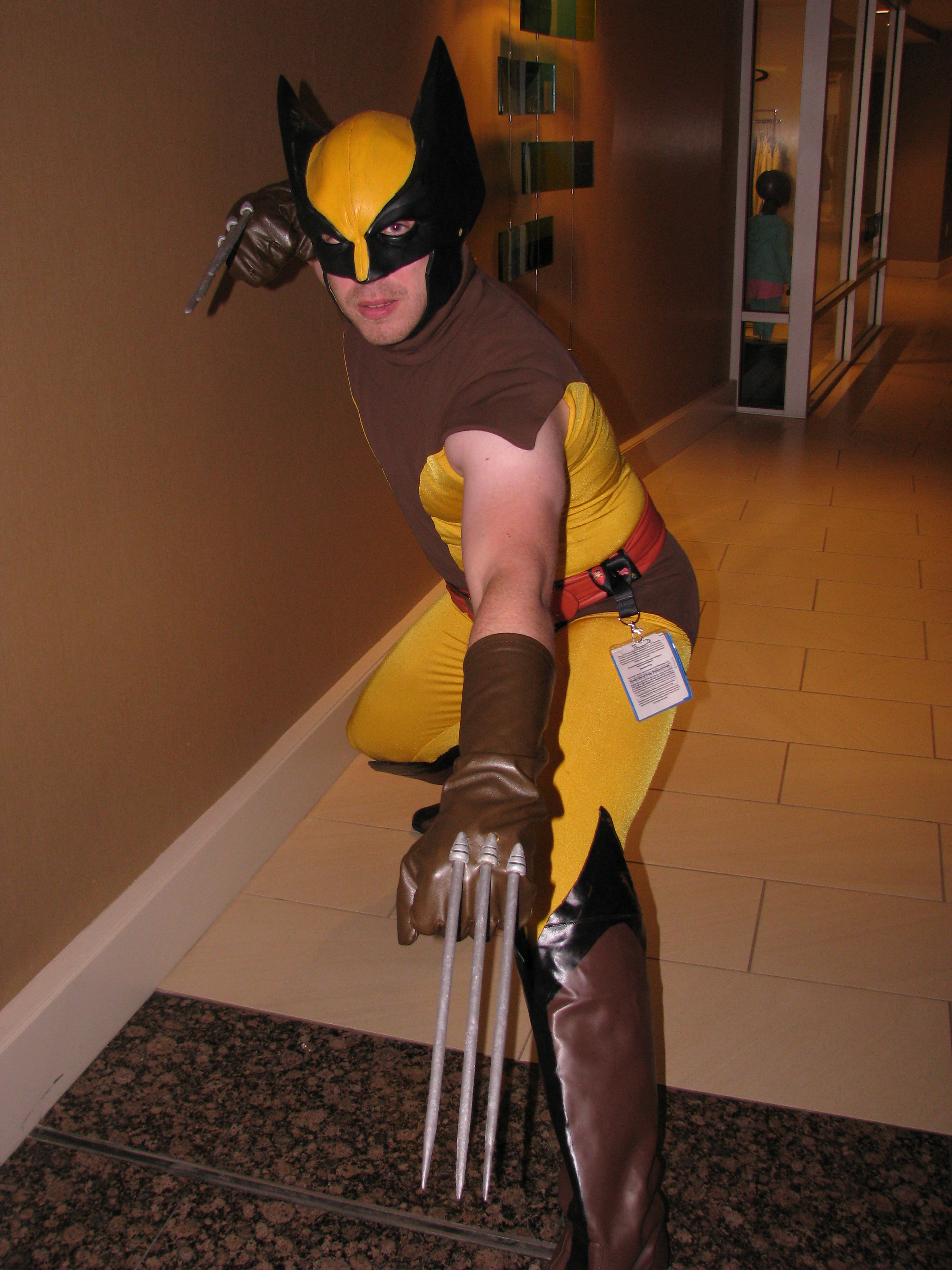 A cosplay of Wolverine's brown suit.